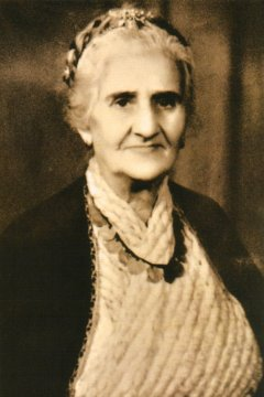 Stana Avramovic Karaminga